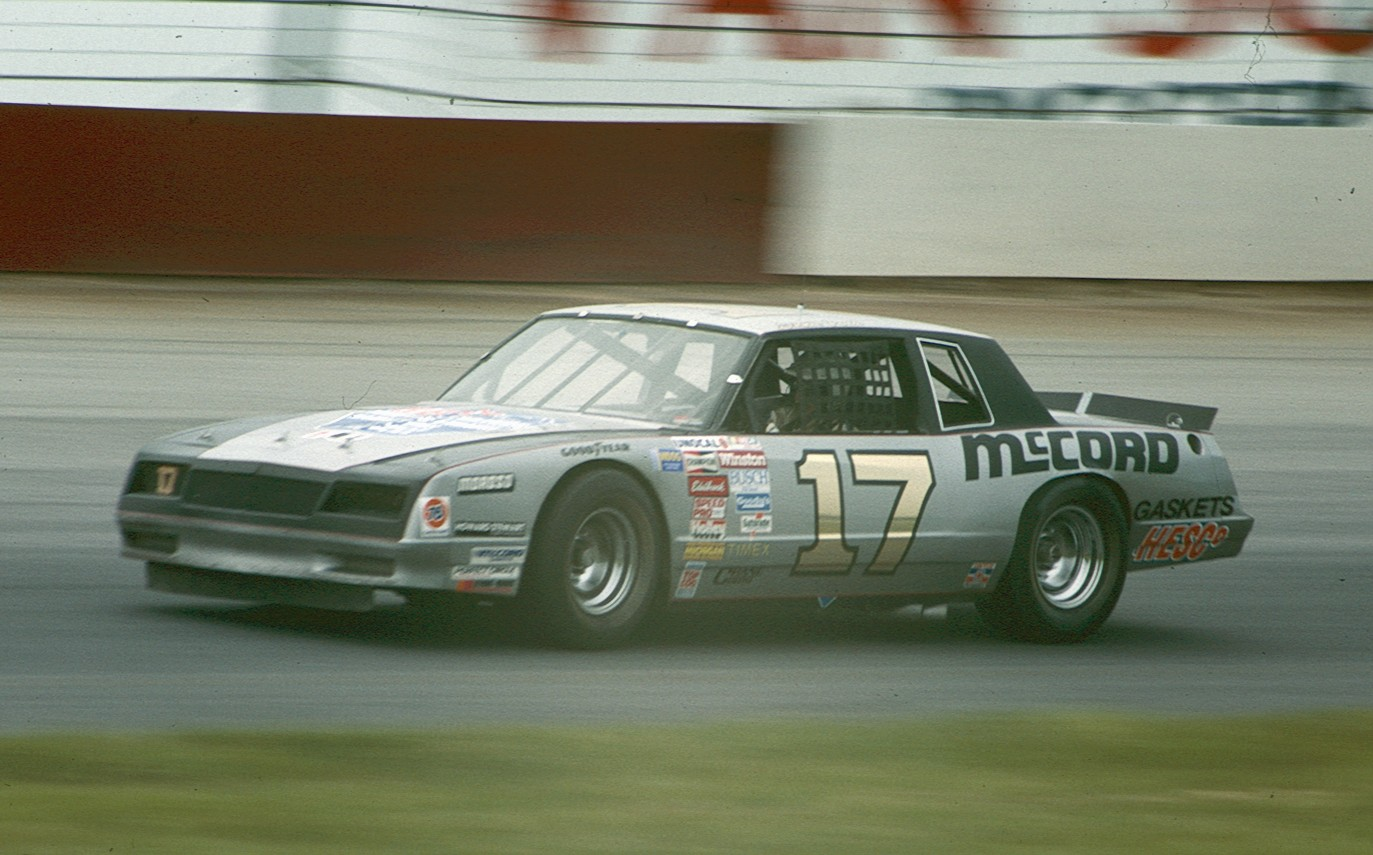 NASCAR driver Lenny Pond at Pocono Raceway for the 1985 Summer 500. Photo by Ted Van Pelt.